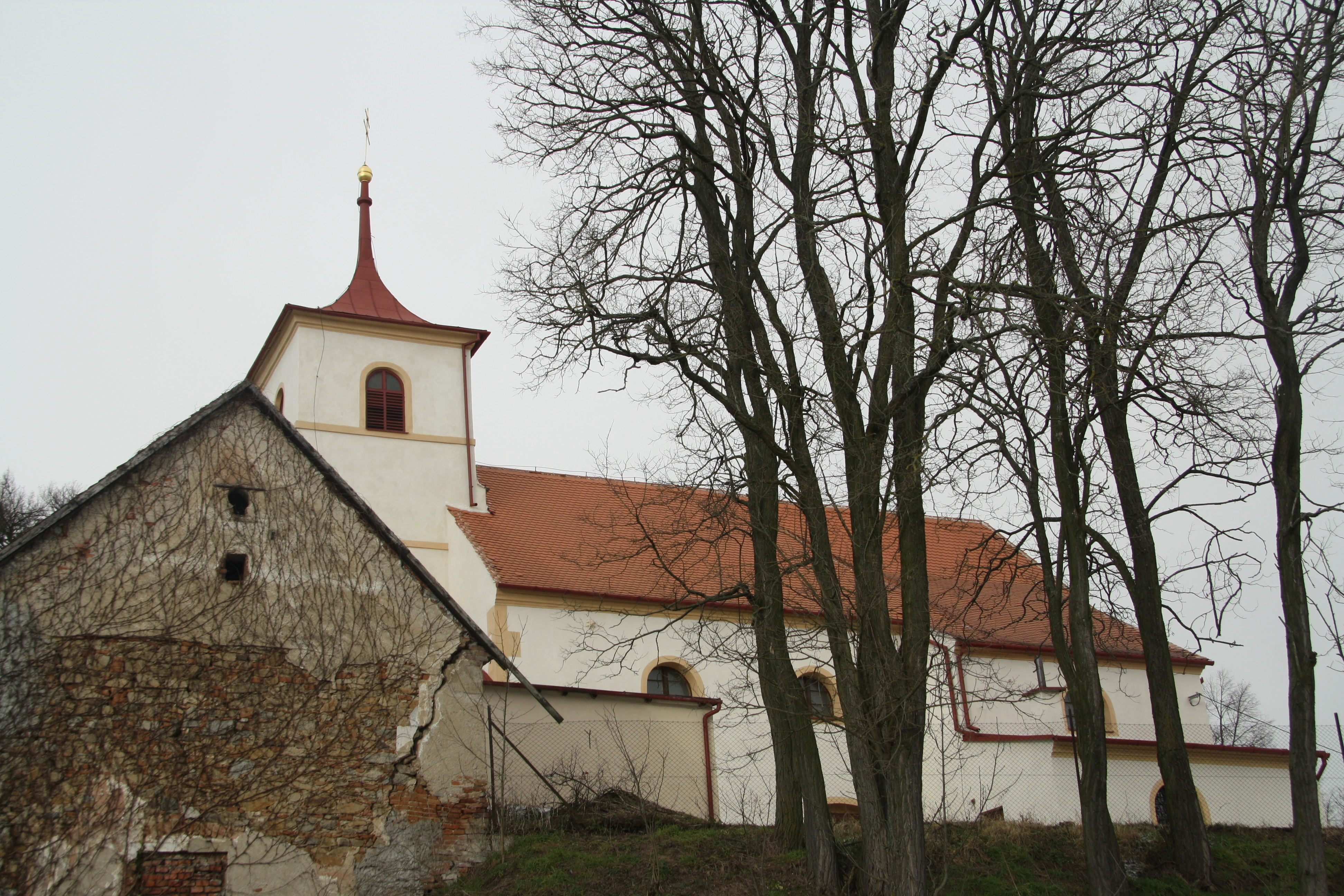 Down view of Church of Saint Martin in Biskupice-Pulkov, Třebíč District.